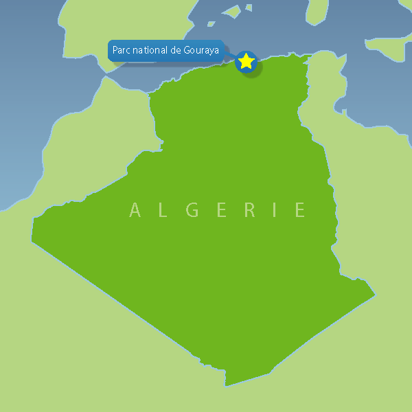 Map of National parks of Algeria, Gouraya National park